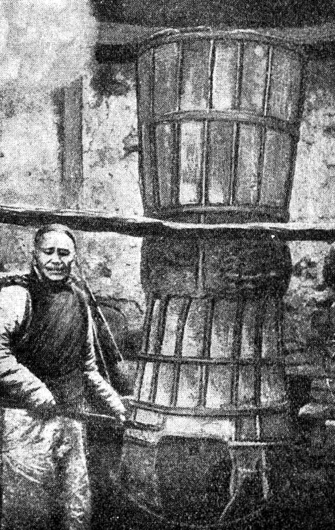 Blast furnace in Henan (China, 1930)